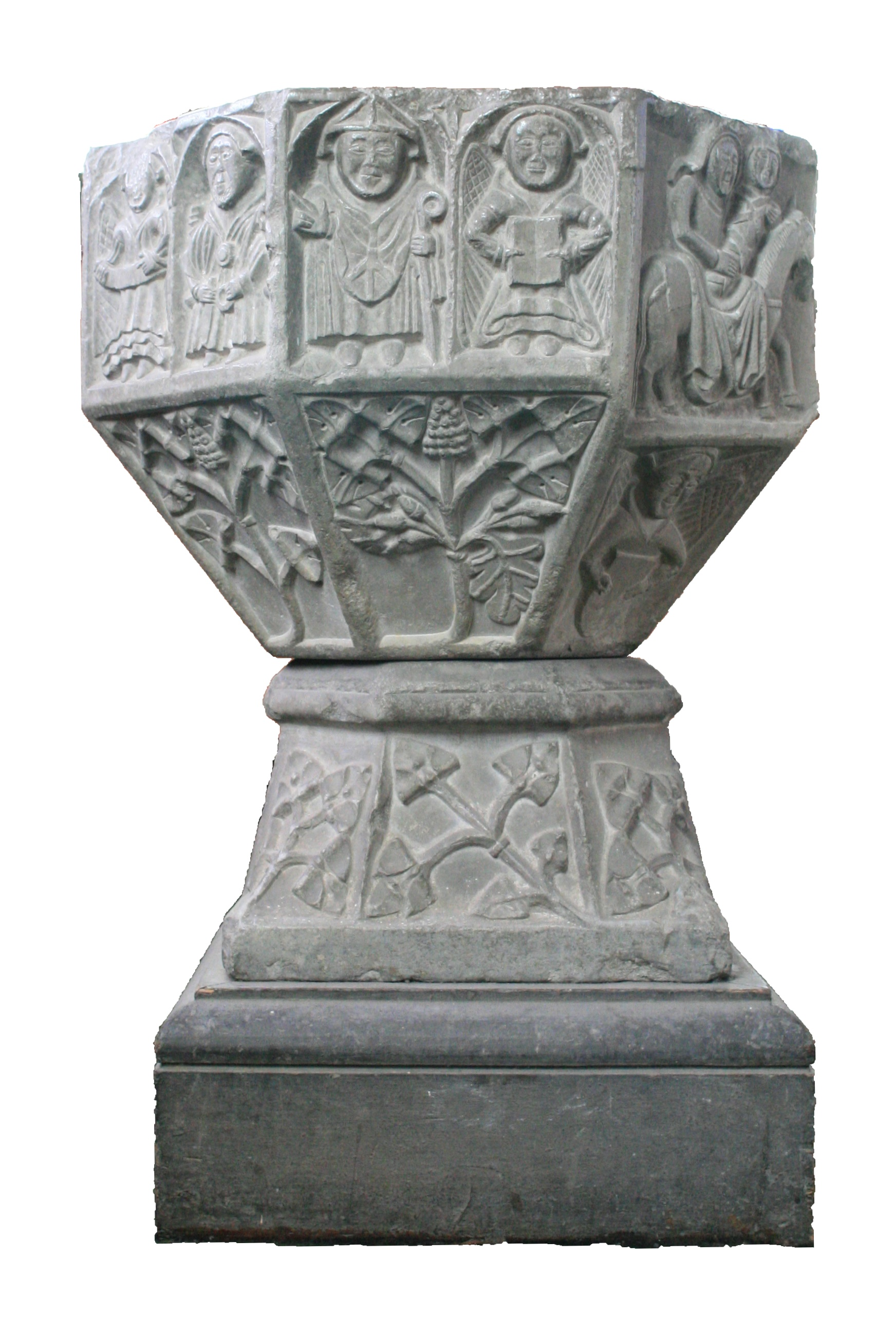 Clonard, County Meath, Ireland Baptismal font from the 15th or 16th century at the Church of St. Finian in Clonard. The figures at the upper part from left to right: An angel with an open scroll, St. Peter, St. Finian, an angel with an open book, and the flight into Egypt.